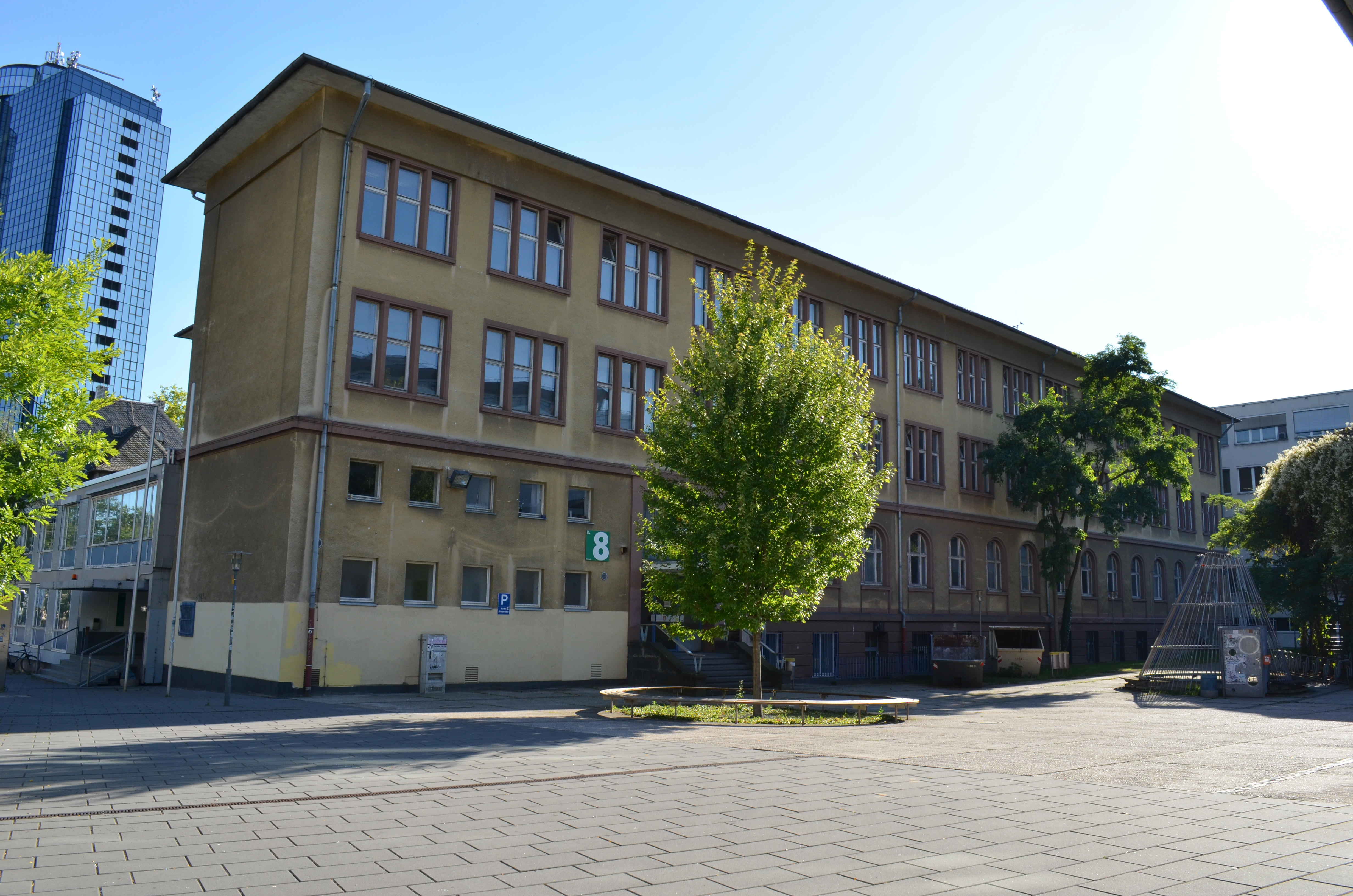 Fachhochschule Frankfurt am Main (FH FFM) - University of Applied Sciences: Building 8. (On the left side is the BCN-Tower in background, on the right side is a part of Building 7.)